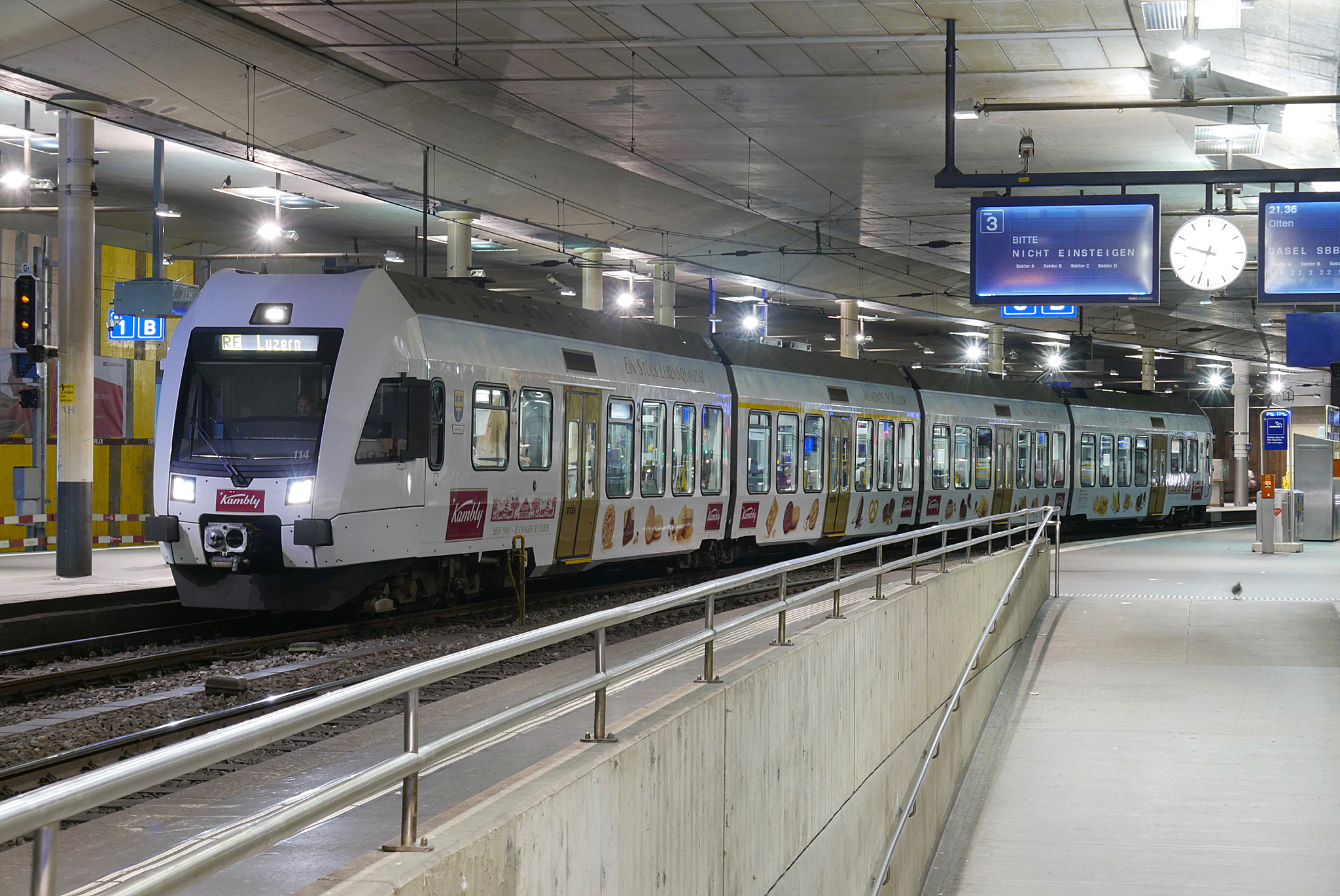 BLS RABe 535 114 at Bern train station.